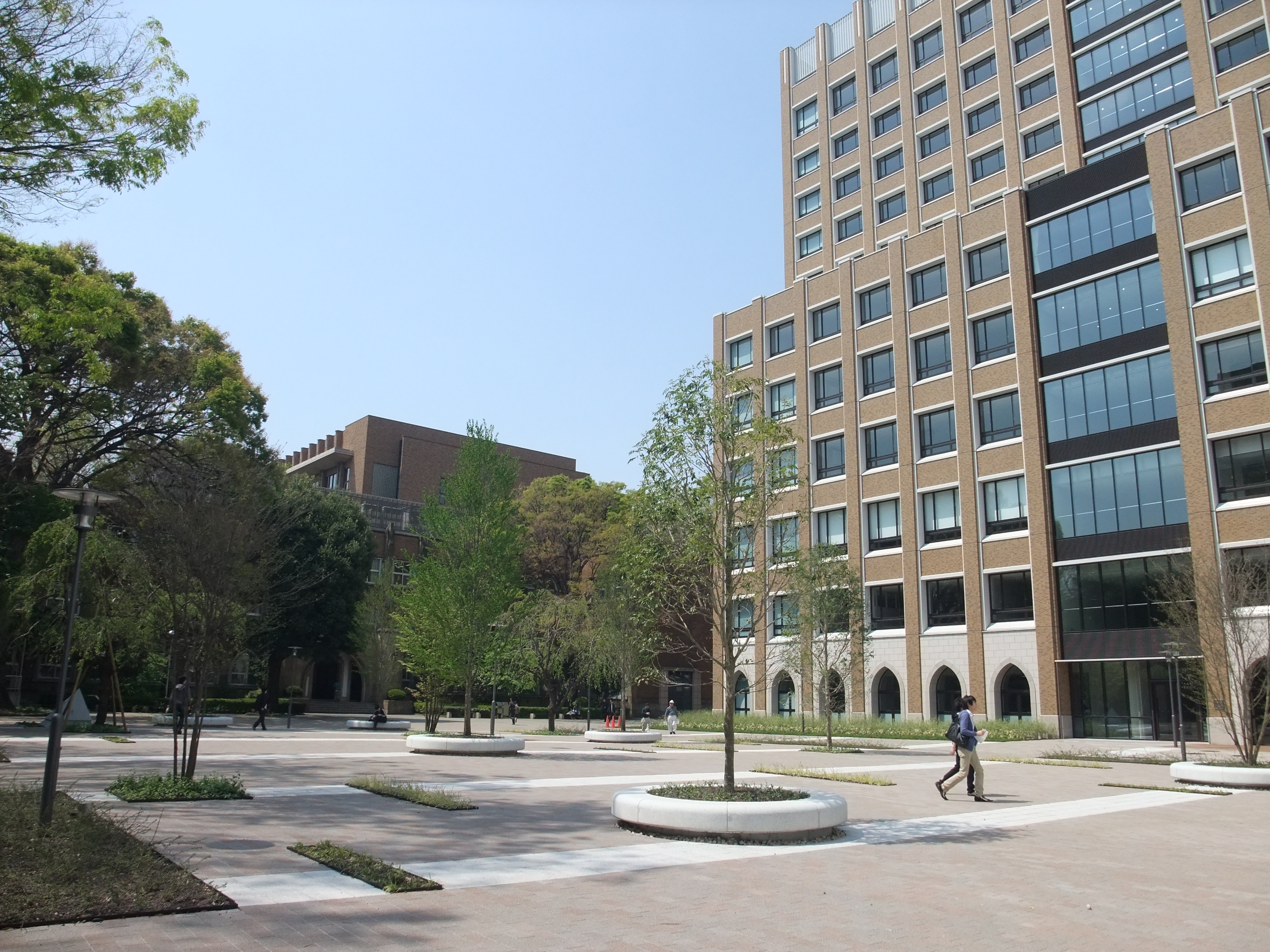 Sqare in front of the Center for Research and Education (中央教育研究棟) in Gakushuin University (学習院大学)